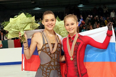 Russian figure skaters Adelina Sotnikova (left, 2nd) and Yulia Lipnitskaya (1st) at the 2014 European Championships.